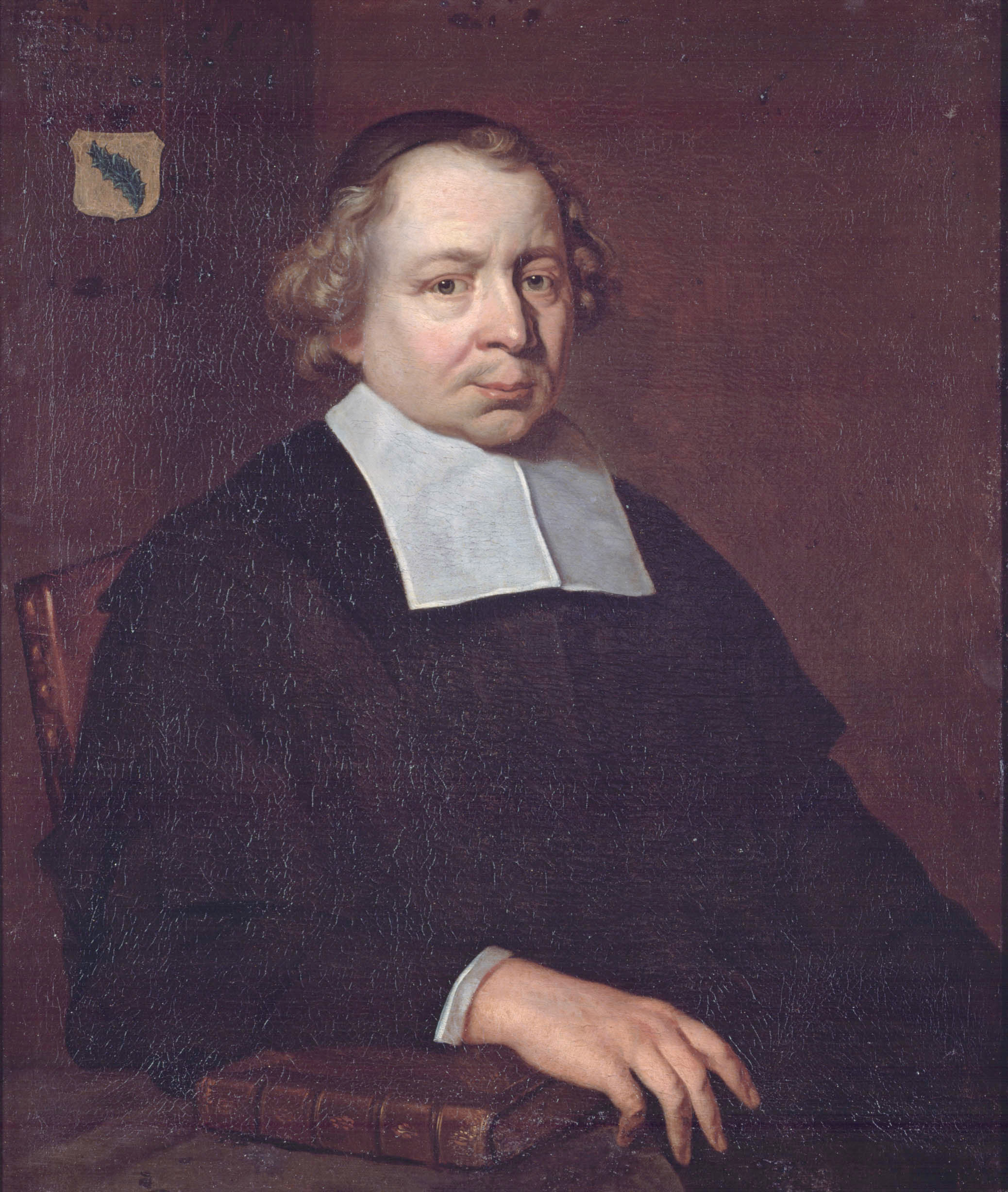 Anthony Hulsius (1615-1685) German philologist and Reformed theologian